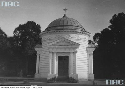 Chapel-burial-vault of the Skirmunts (Skirmunt family) in Moladava (Belarus), 1937 AD